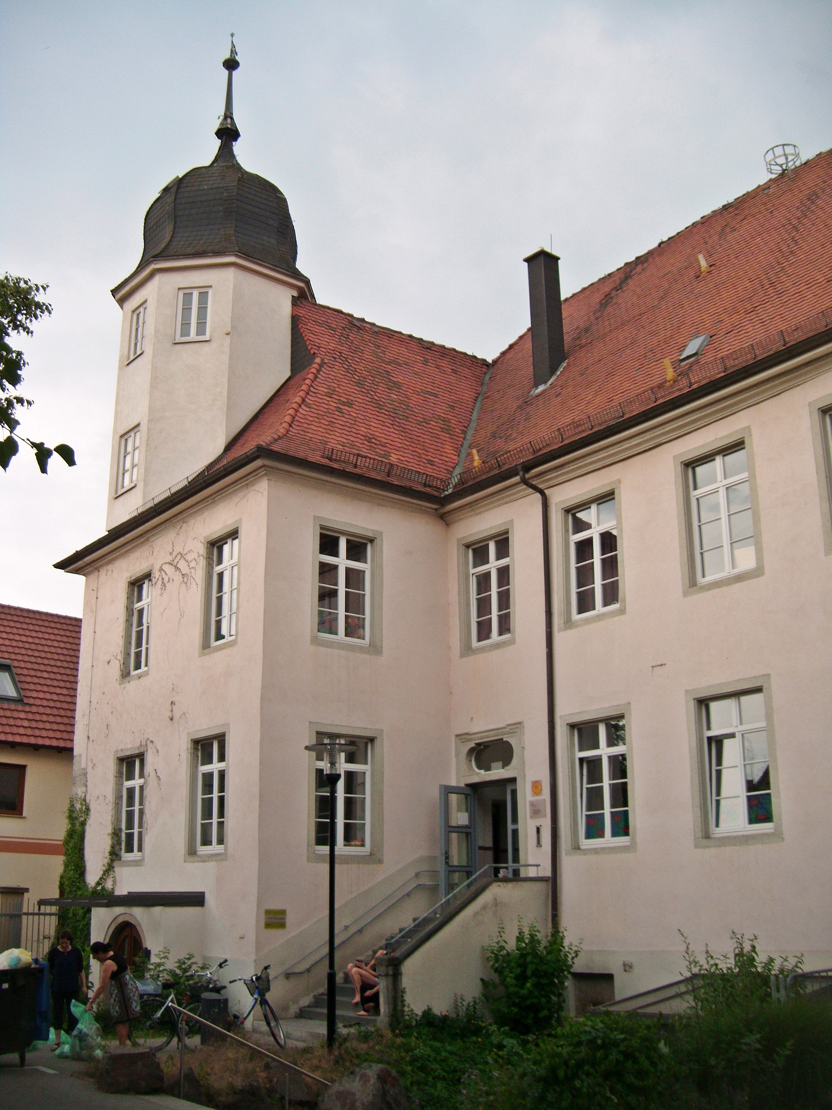 Meckenheimer Schloss, Junkergasse 1, Lambsheim